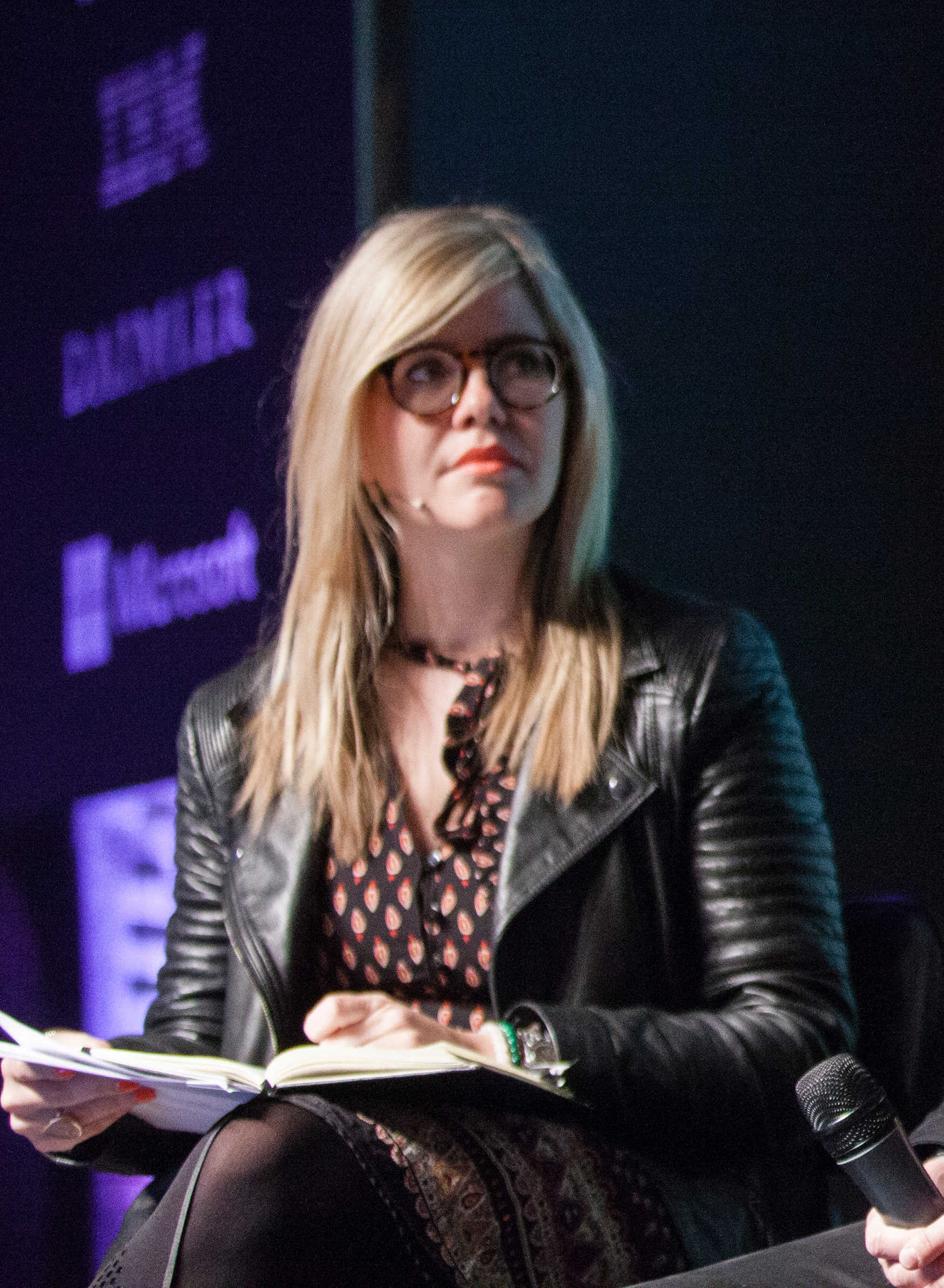 Wolfgang Kampbartold, Gunter Dueck, Max Scott-Slade, Sara Cornish und Emma Barnett bei „#GameForGood: The Quest to Save the Human Brain“ am 04.05.2016 auf der re:publica in Berlin. Foto: re:publica/Jan Zappner CC BY 2.0